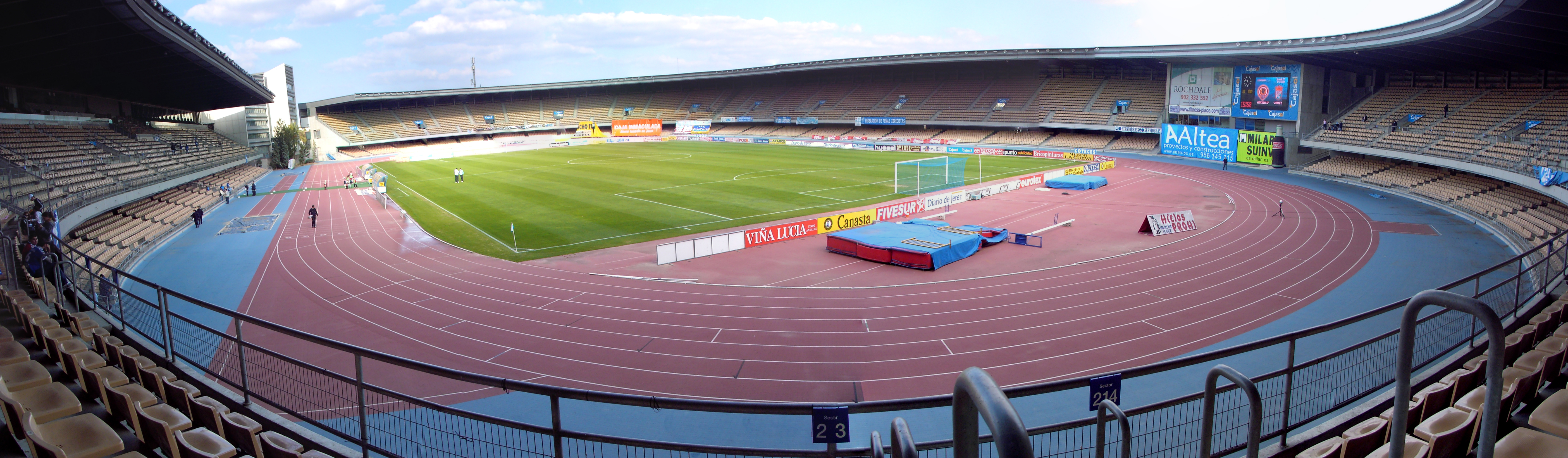 Panoramic of Chapin Stadium